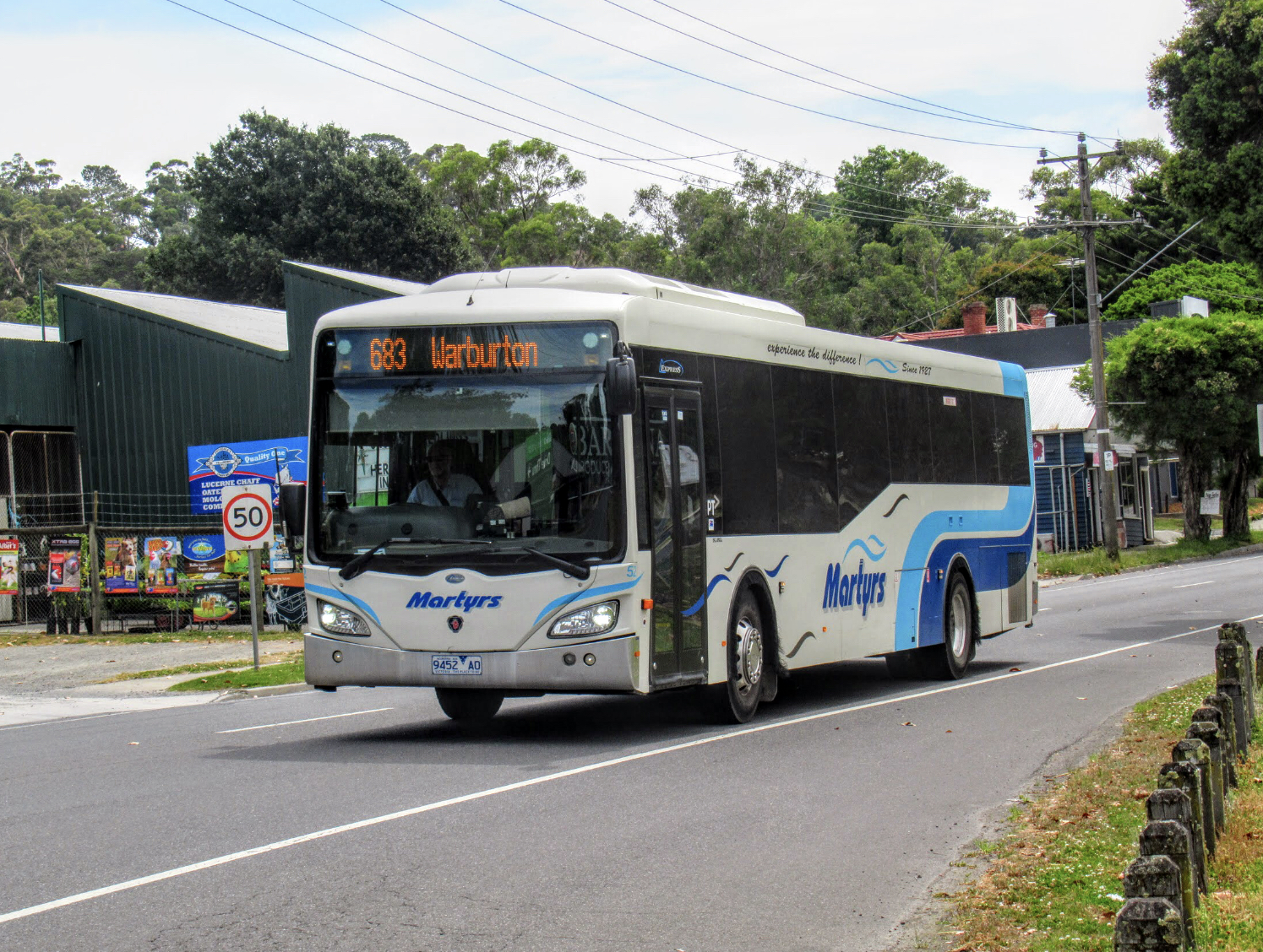 Martyrs Bus in Yarra Junction